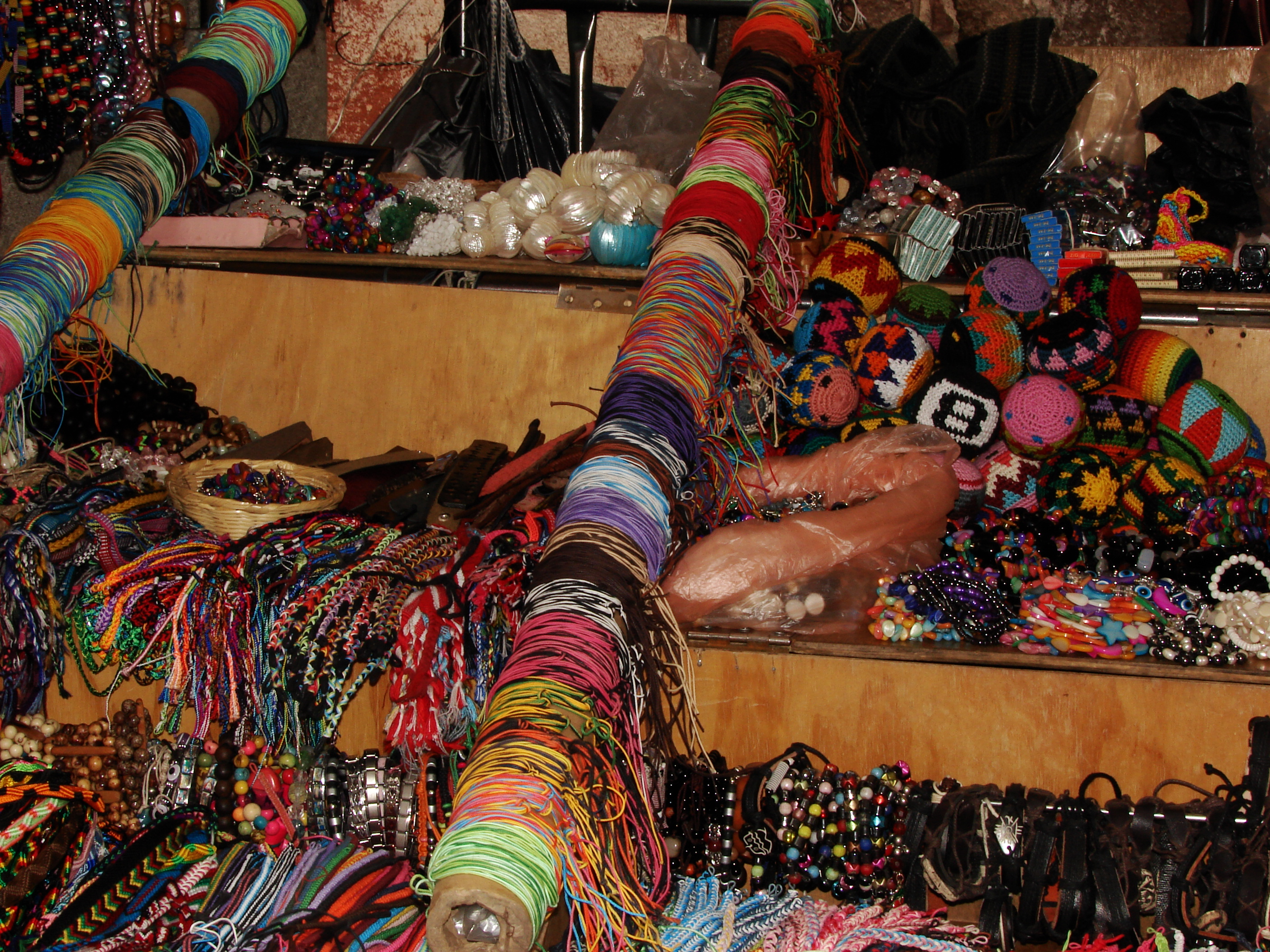 Hippie market in San Luis Potosi historic downtown.